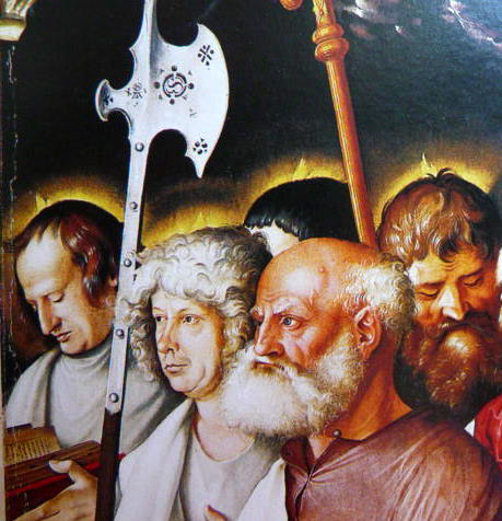 Hans Baldung, High altar of Freiburg Minster; detail: Saint Peter and saints